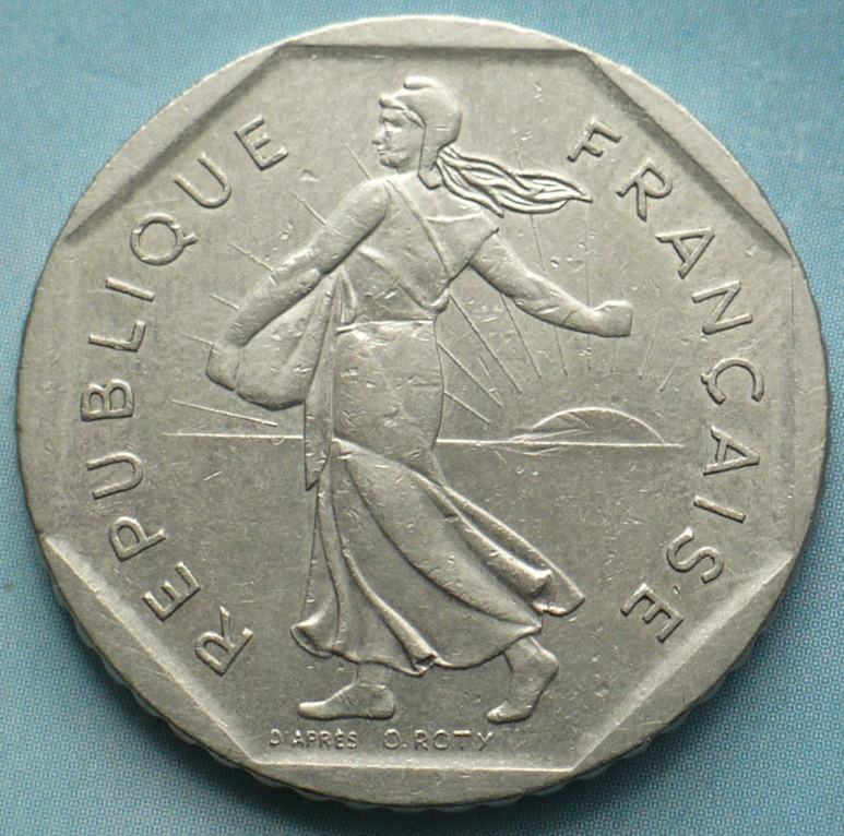 France 2 francs